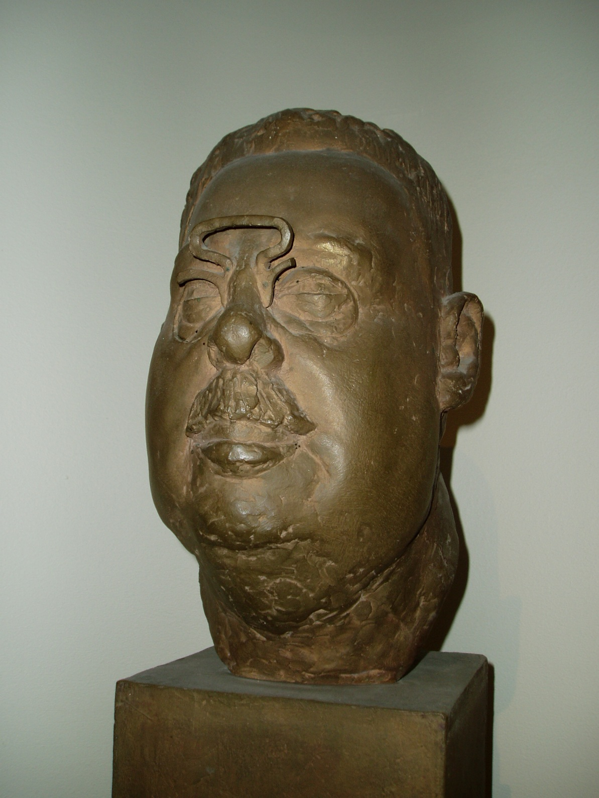 Otto Olsson, swedish composer, portrait at Gustav Vasa kyrka, Stockholm